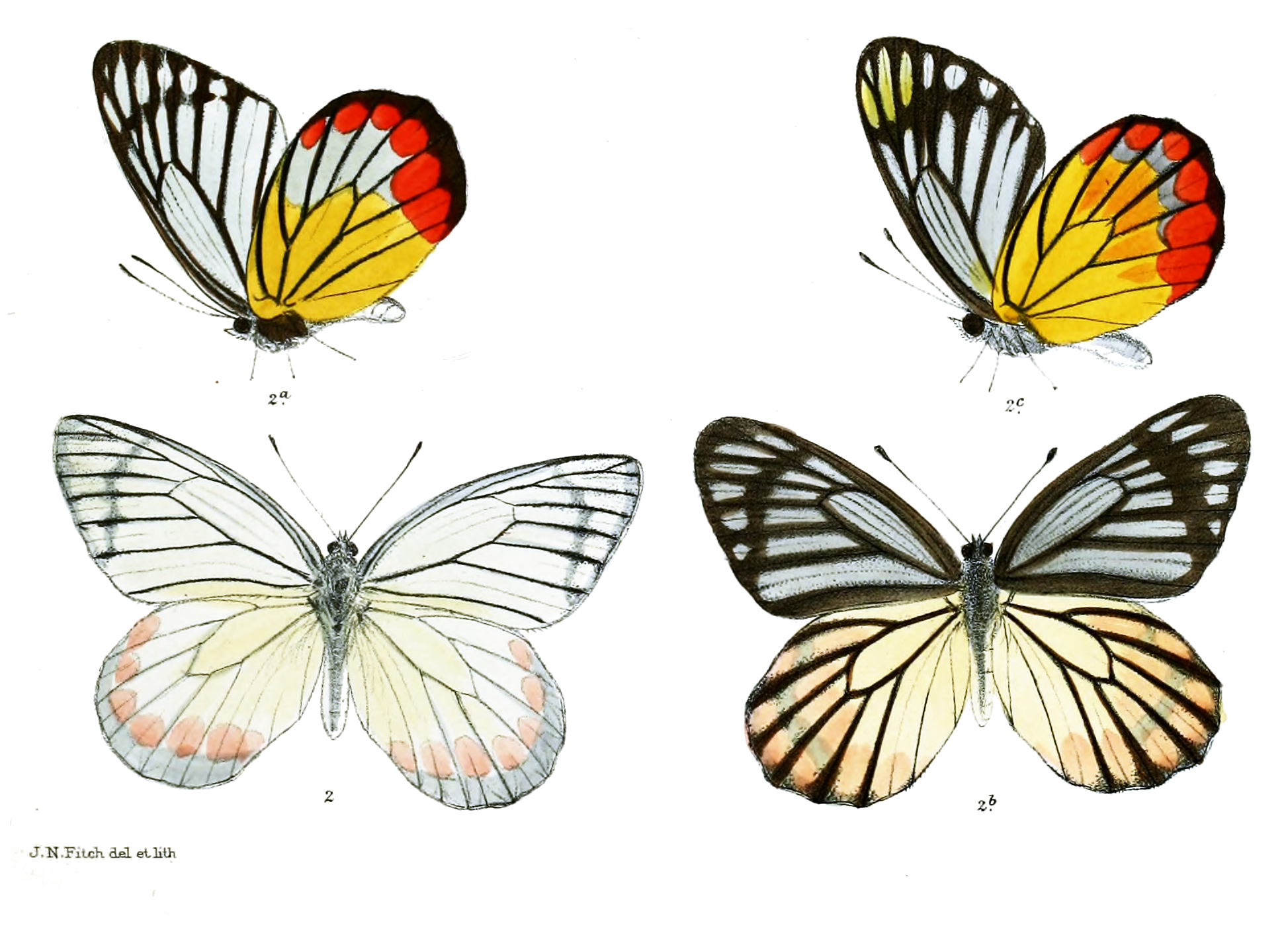 Delias hyparete